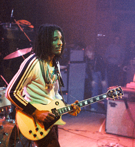 Al Anderson touring with Peter Tosh on the Bush Doctor Tour. Sophia Gardens, Cardiff, Wales. 1978.